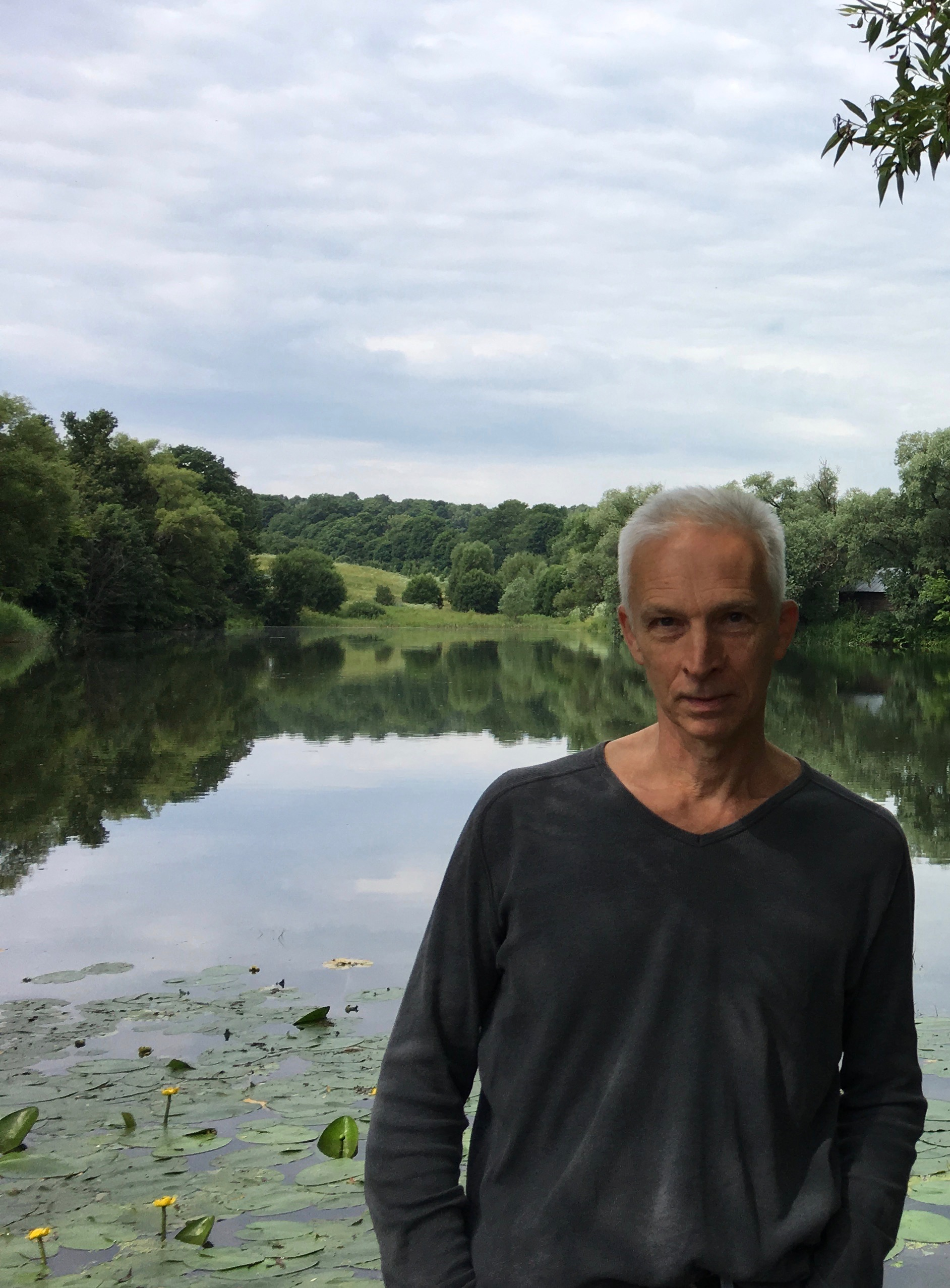 This is a photo of author, Rupert Thomson